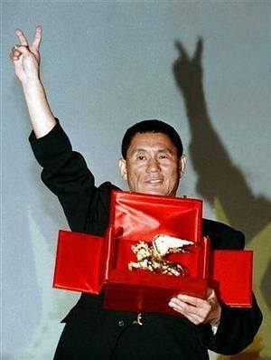 Takeshi Kitano with the Leone d'oro